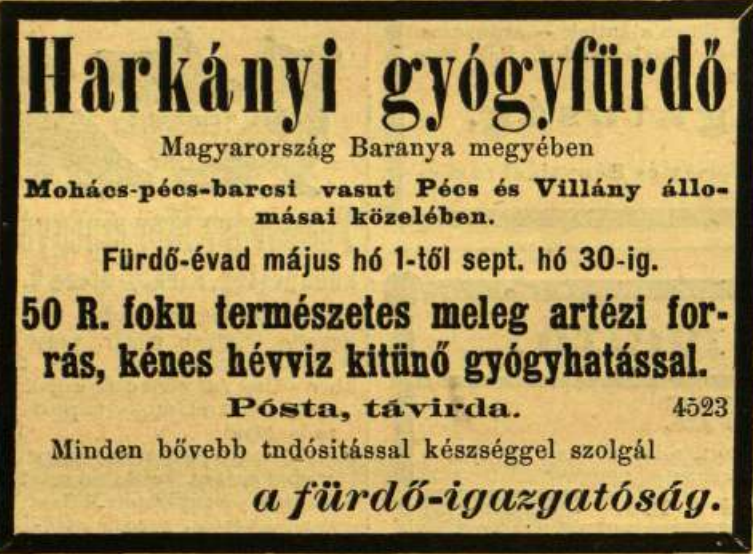 Advertisement, Harkány, public baths